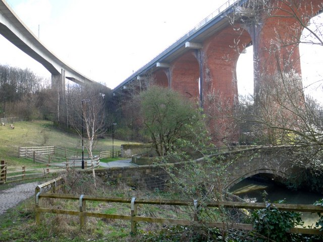 Crawford's Bridge, Ouseburn On the right is the oldest of the surviving bridges which cross the lower Ouseburn, built in the early to mid-C18th. The name derives from Thomas Crawford who owned a number of properties in the area in the early C19th High above the valley are the Metro Bridge and Byker Road Bridge.